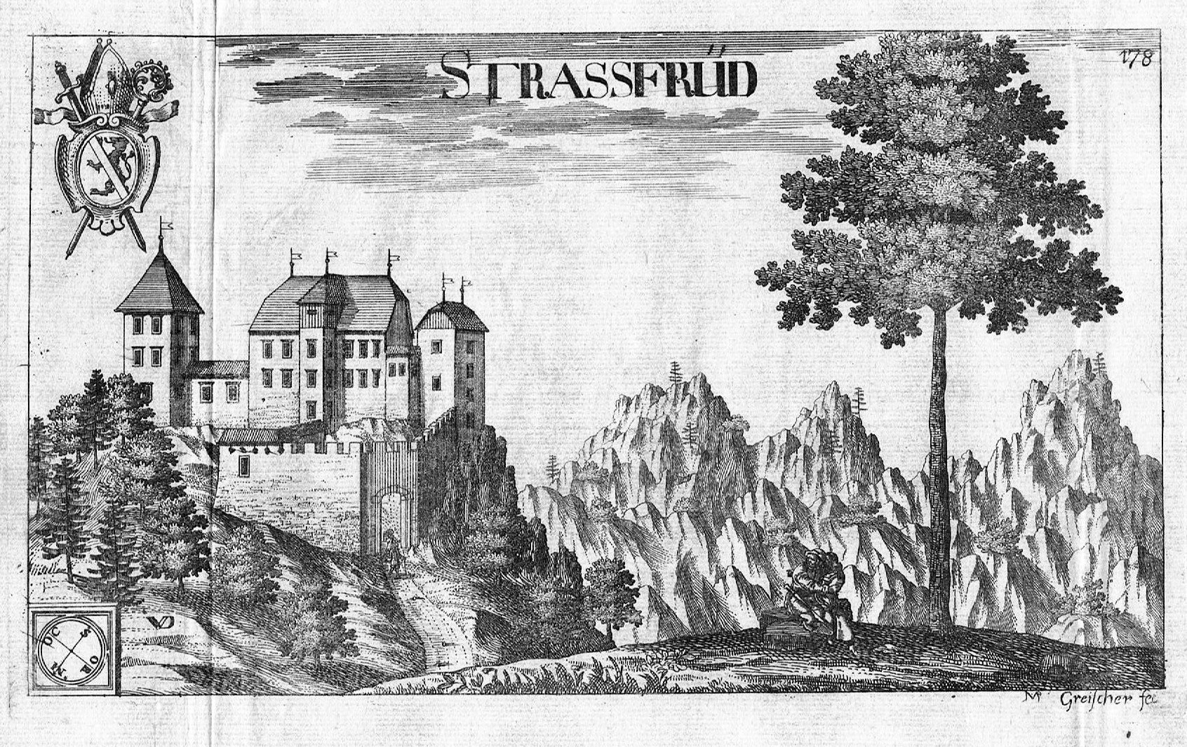 Castle Strassfried in Thörl-Maglern, Carintia